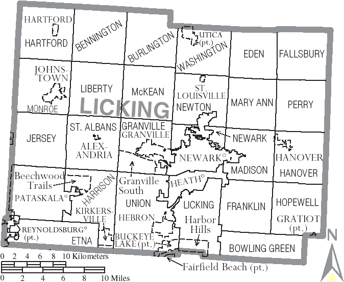 Map of Licking County, Ohio, United States with township and municipal boundaries